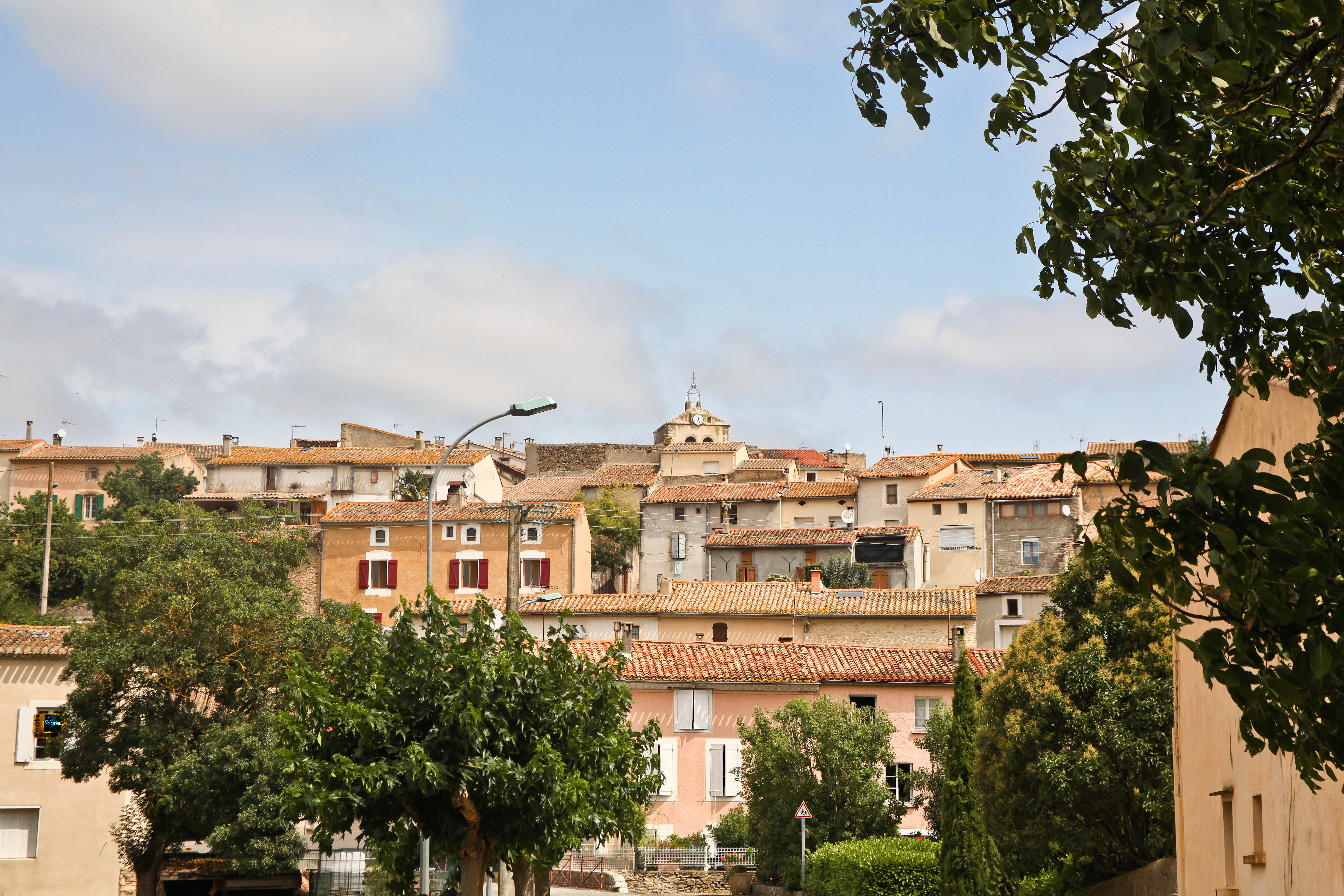 Raissac-sur-Lampy village